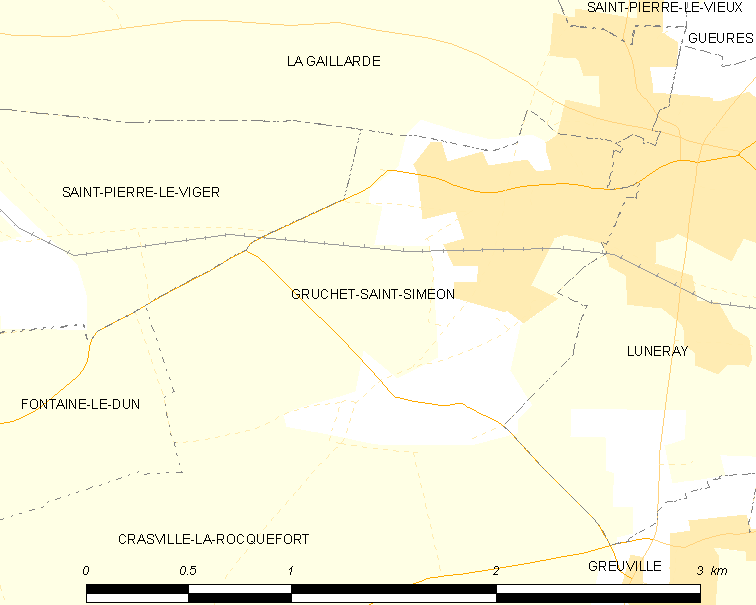 Map of French municipality Gruchet-Saint-Siméon